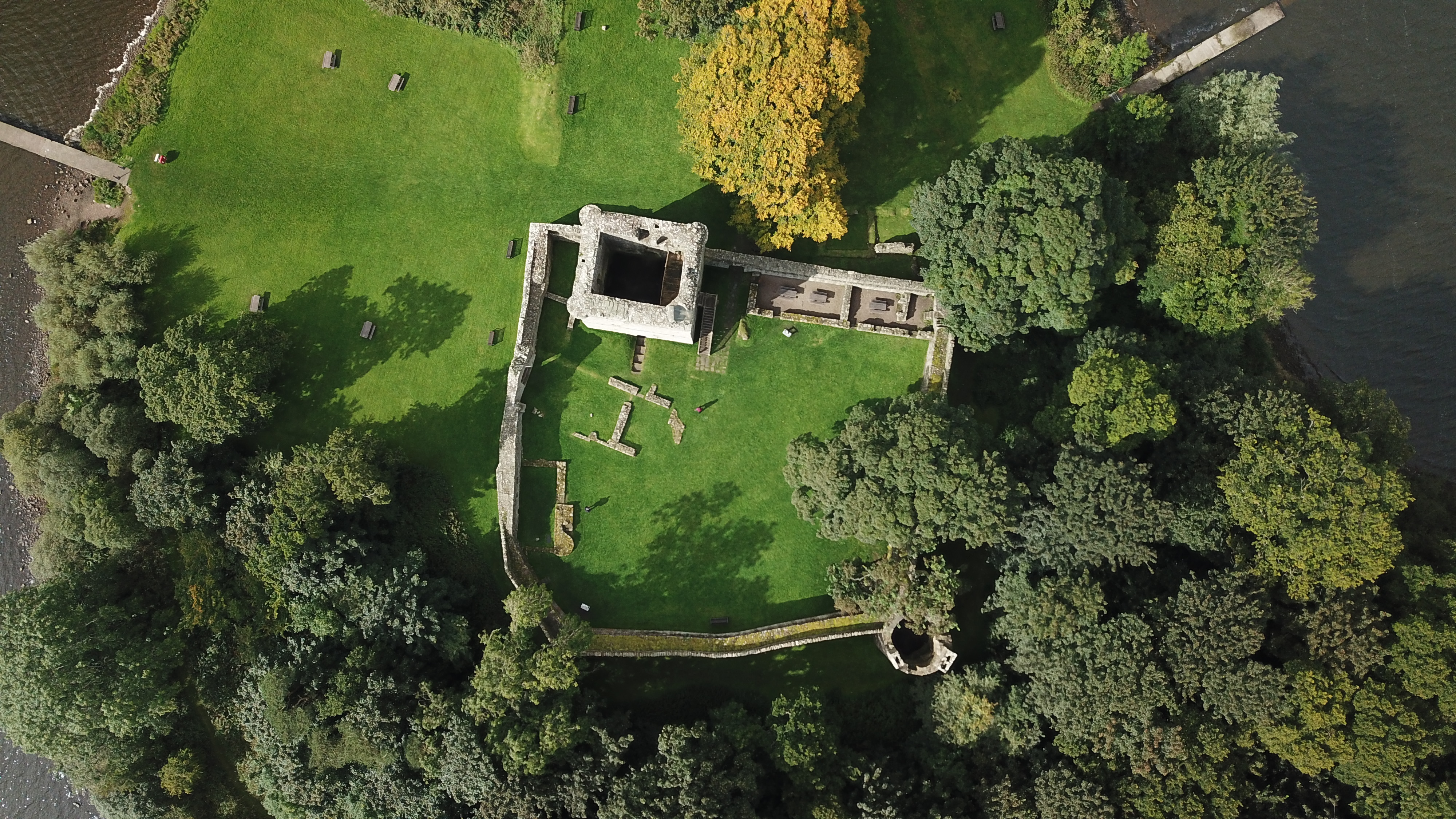 Loch Leven Castle Wikidata has entry Q514388 with data related to this item.